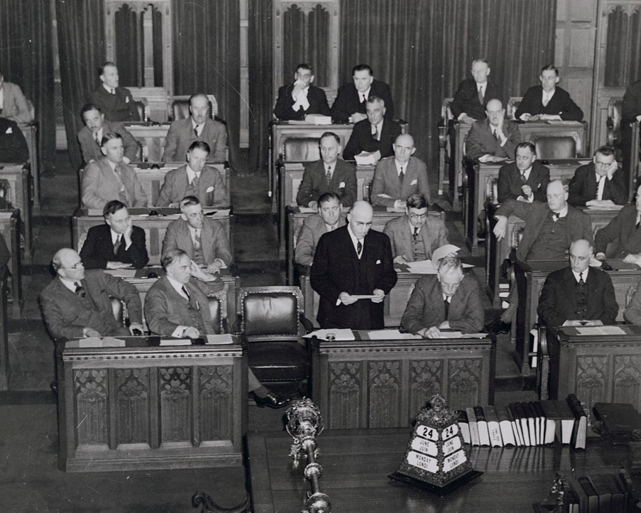 James Ralston speaking in the Canadian House of Commons.